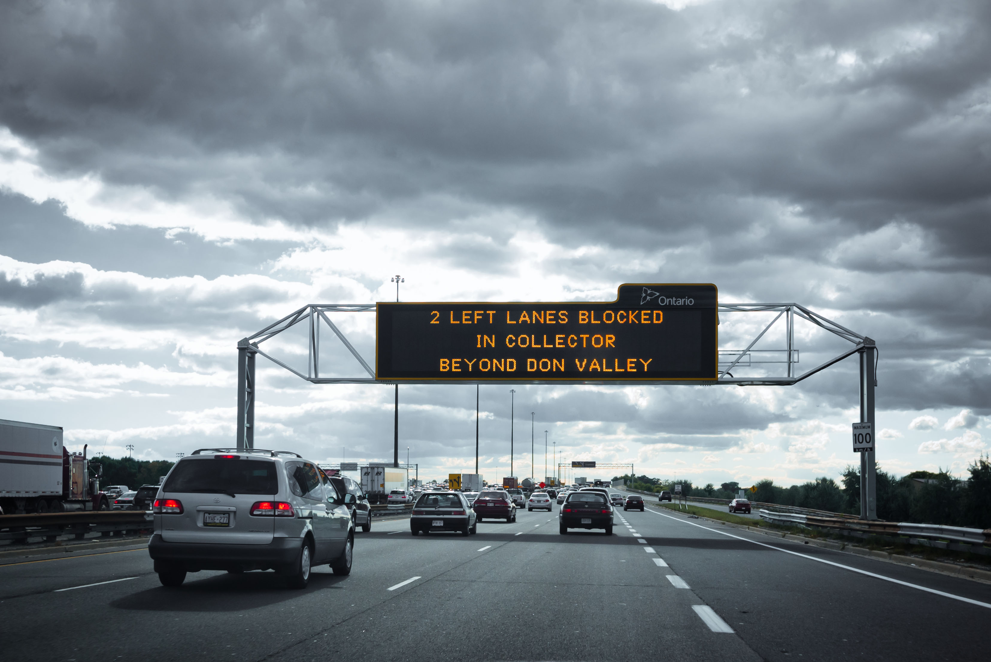 A changeable message sign (CMS) on Highway 401 in Toronto.